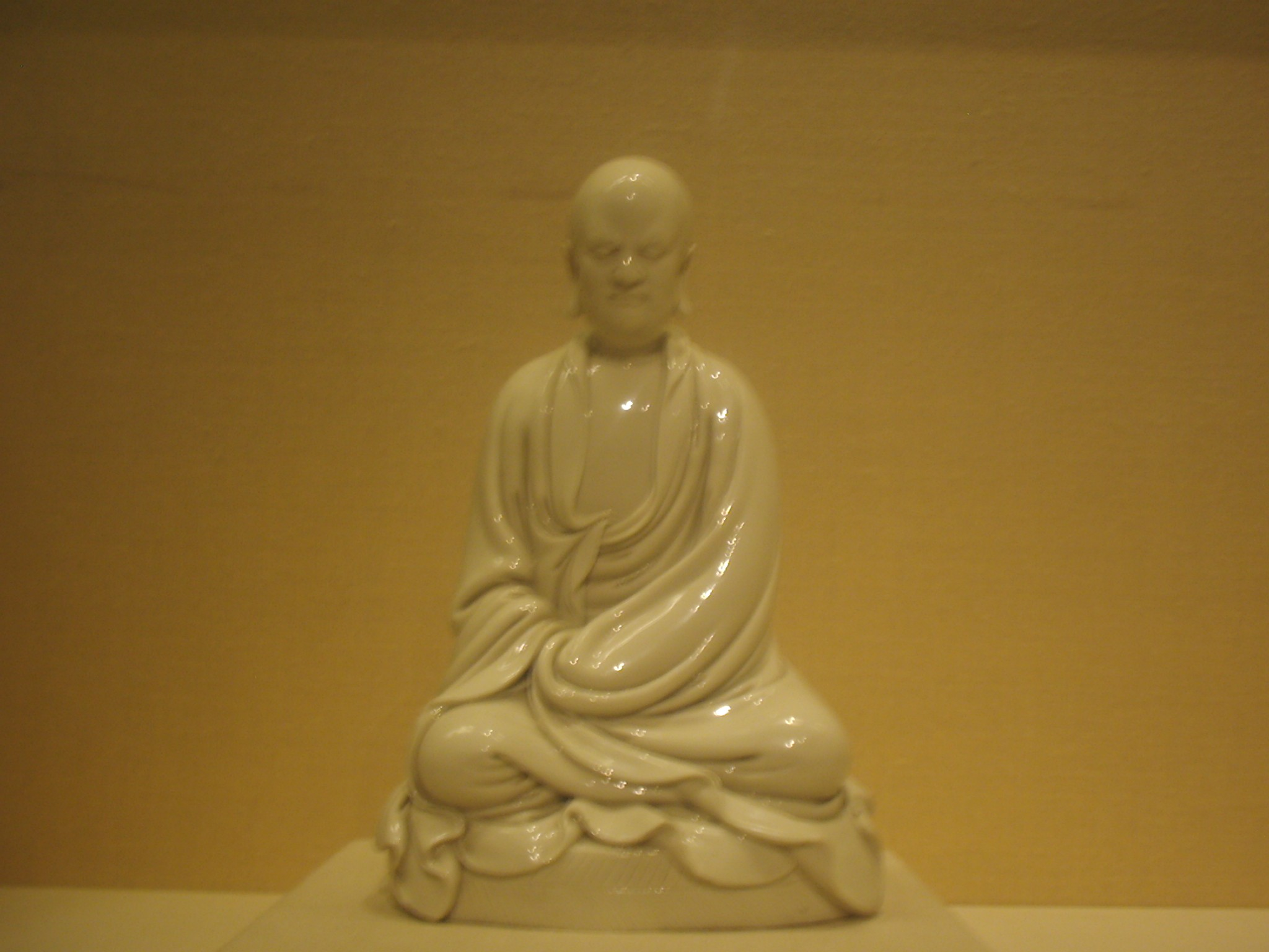 A dehua ware porcelain statuette of Bodhidharma, from the Ming Dynasty (1368–1644), dated to the first half of the 17th century.